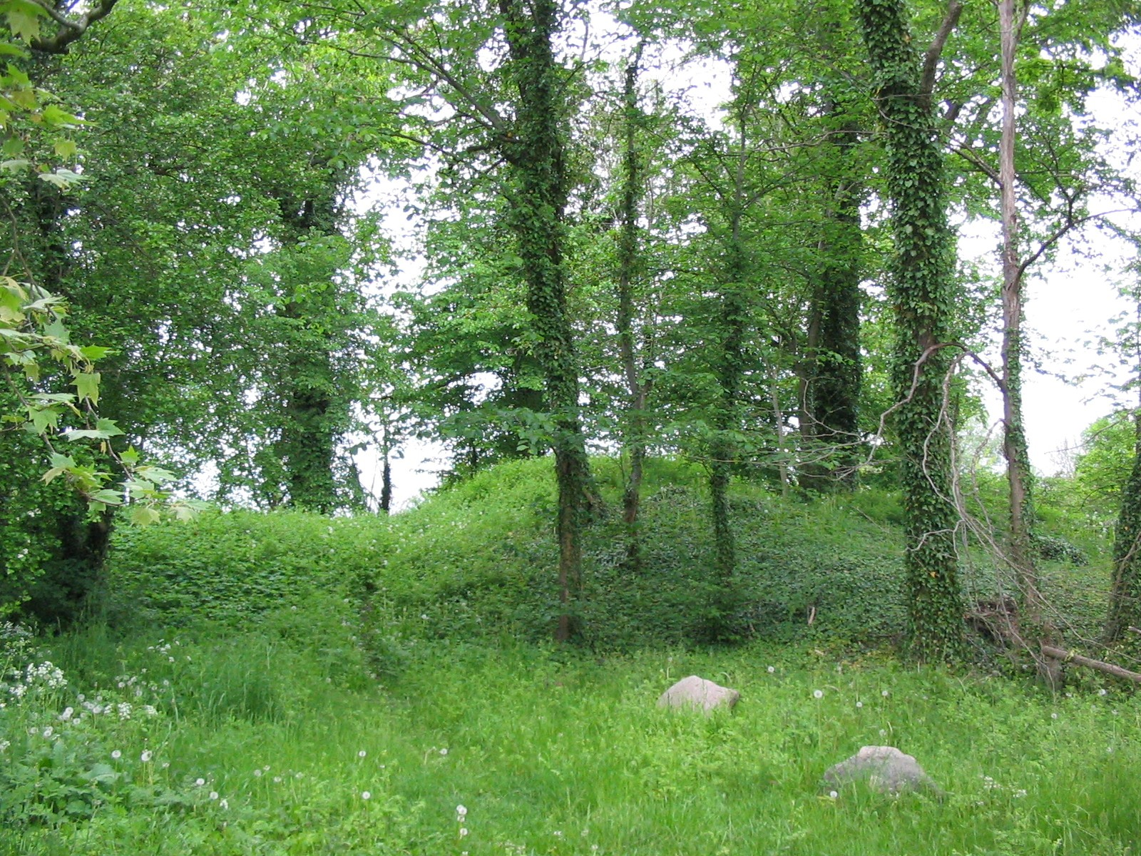 Early medieval castle in Groß Grabow in Groß Grabow, district Güstrow, Mecklenburg-Vorpommern